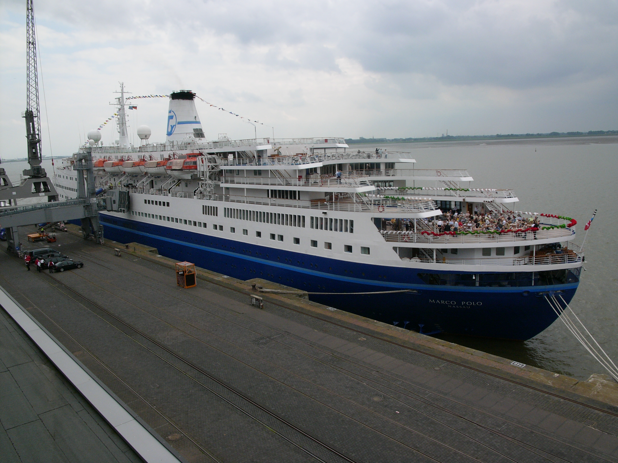 Ship from the North Sea coast, Germany IMO Number: 6417097 MMSI Number: 308693000 Callsign: C6JZ7 Length: 176 m Beam: 24 m